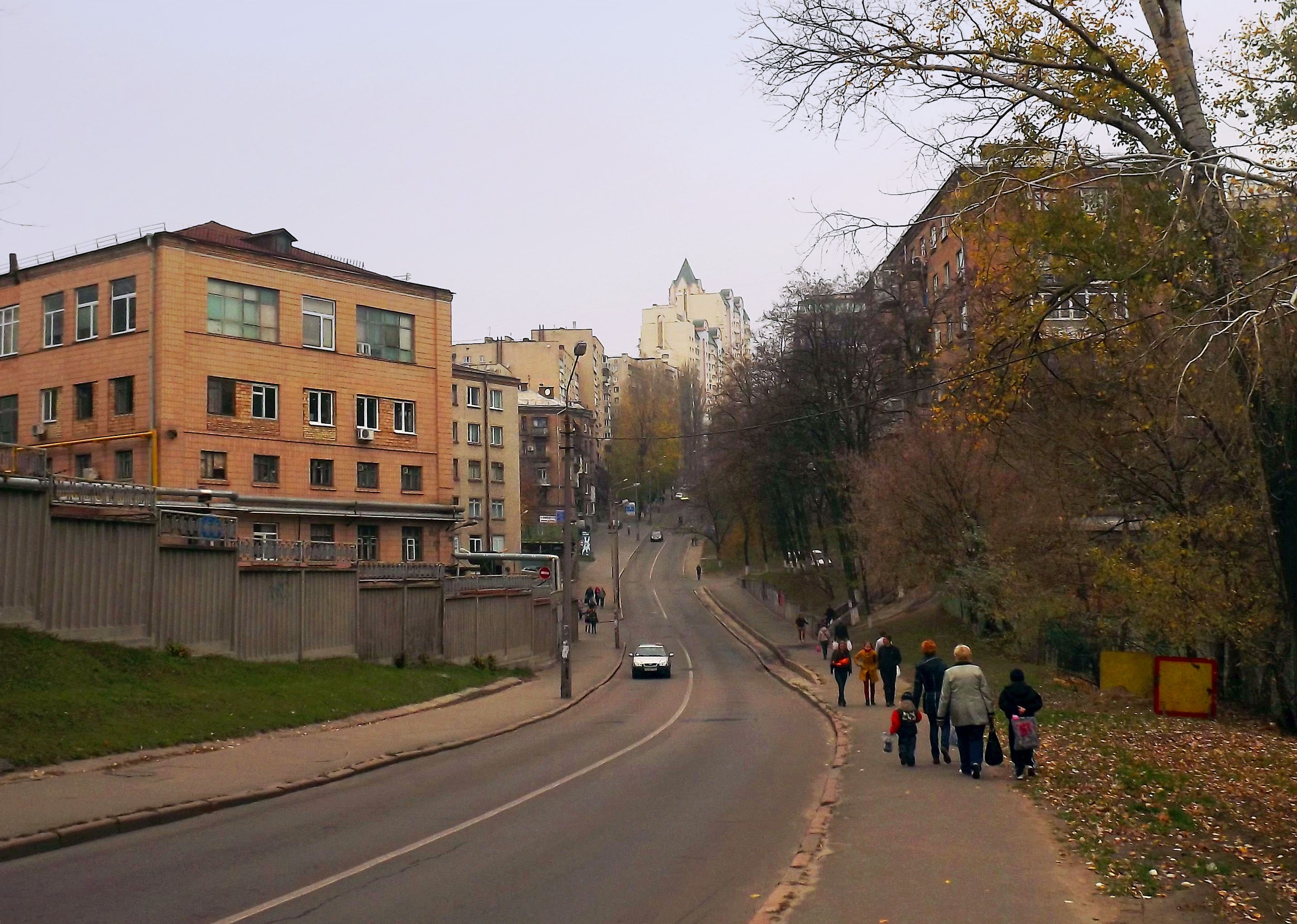 Tatarska Street (Kyiv)